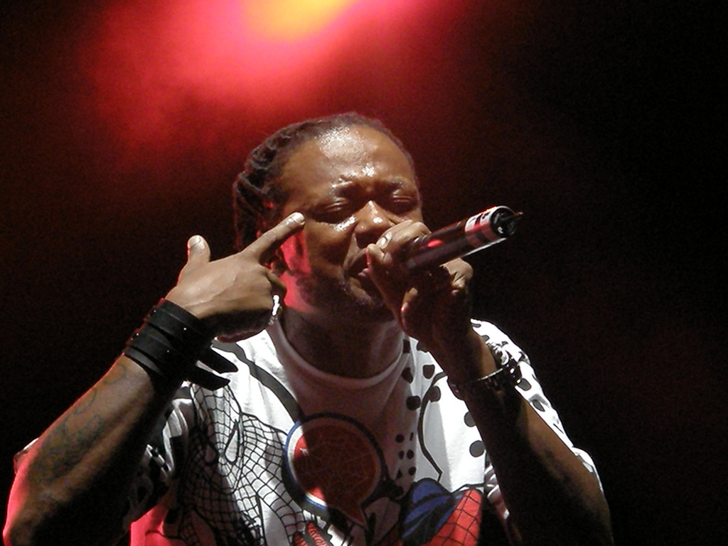 Mc Supernatural